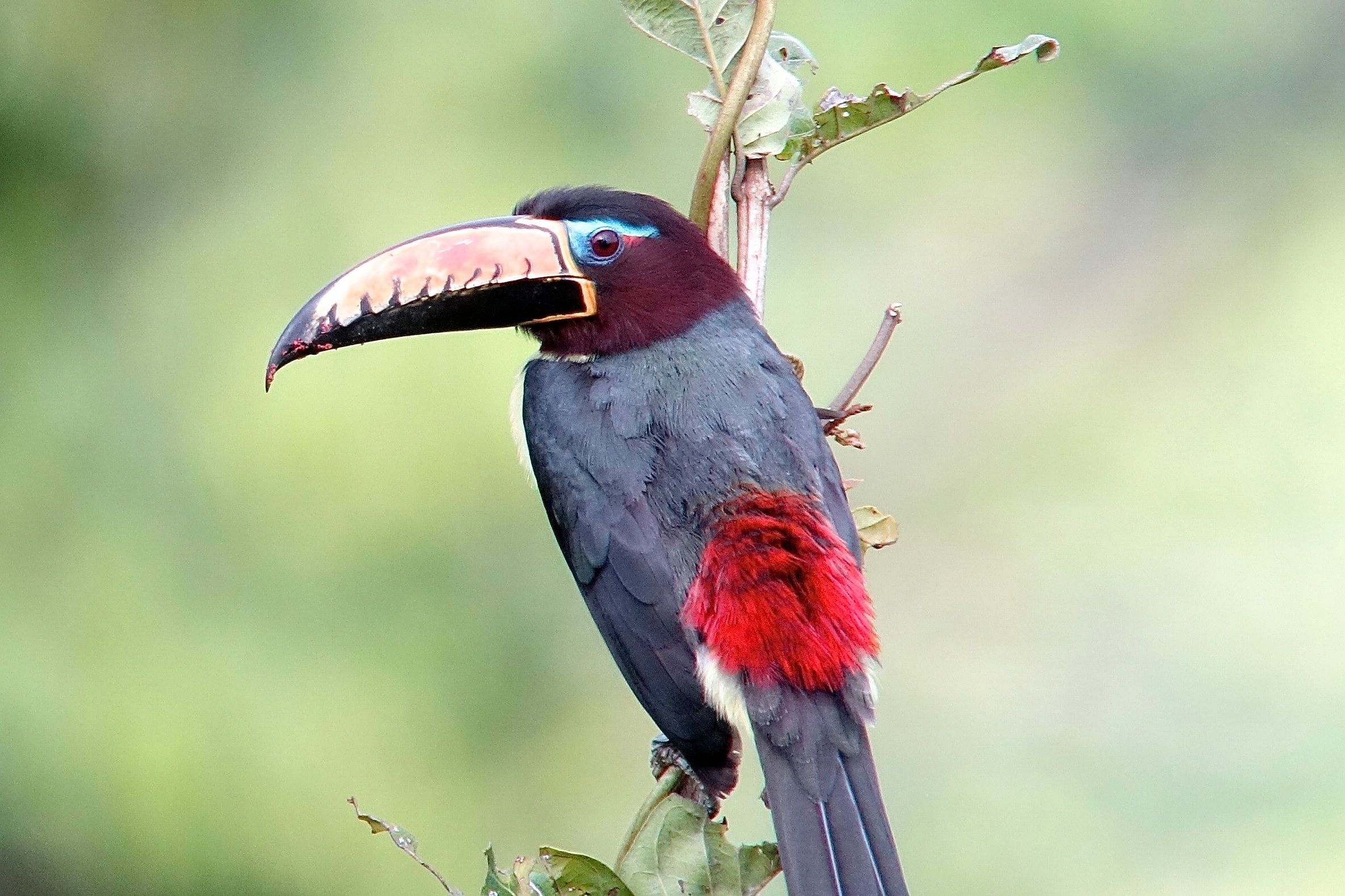 Lettered Aracari (Pteroglossus inscriptus), Peru